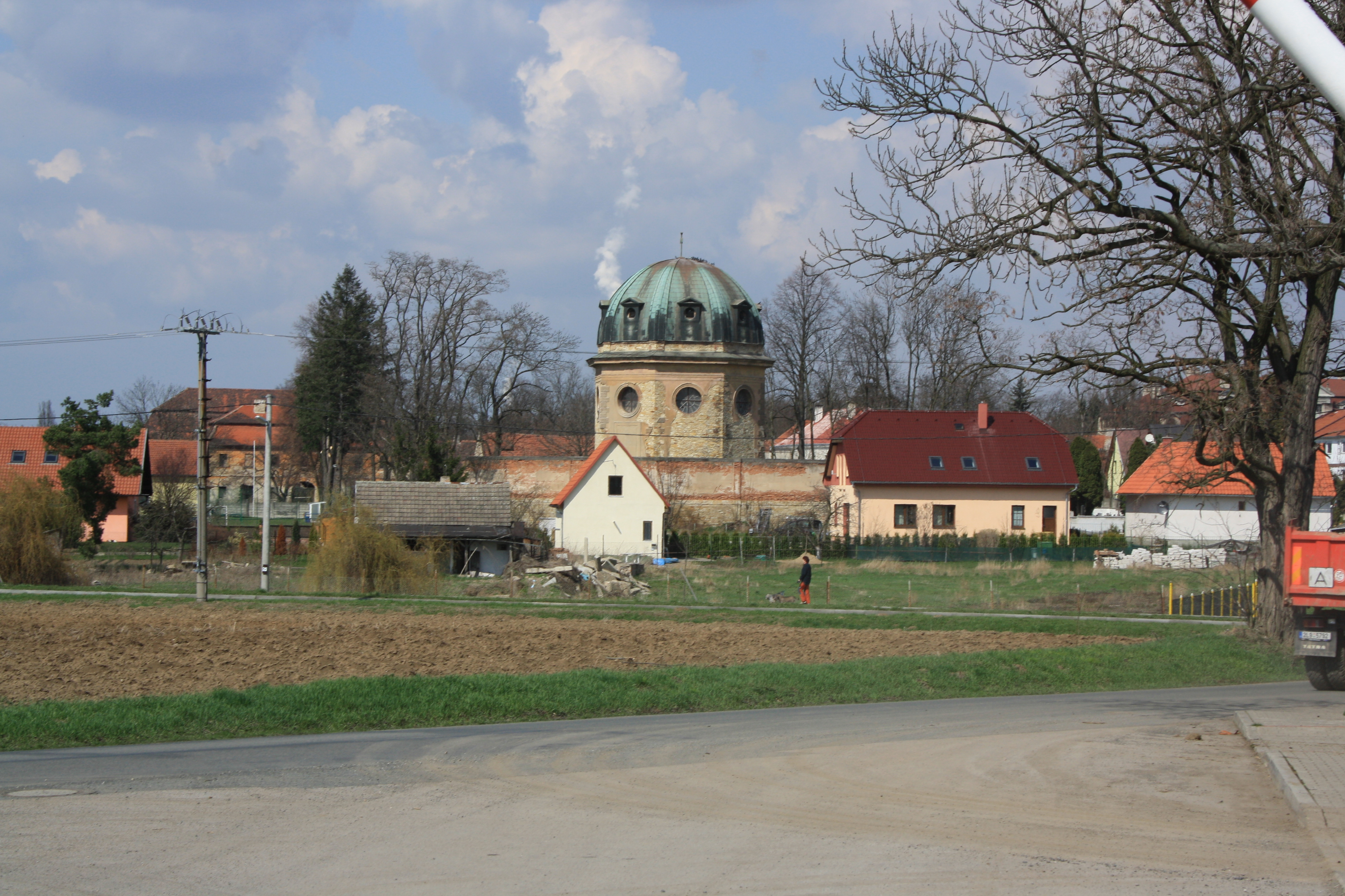 A church in Hořín, Mělník District. Central Bohemian Region, CZ